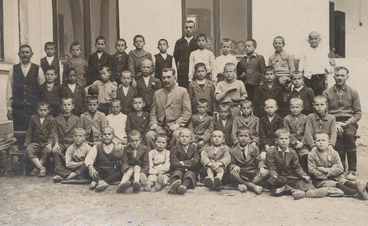 Pupils of the Primary School, 1938